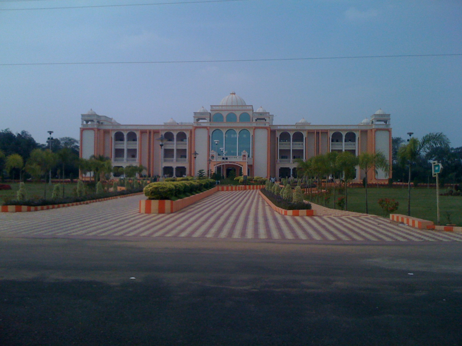 Acharya Nagarjuna University